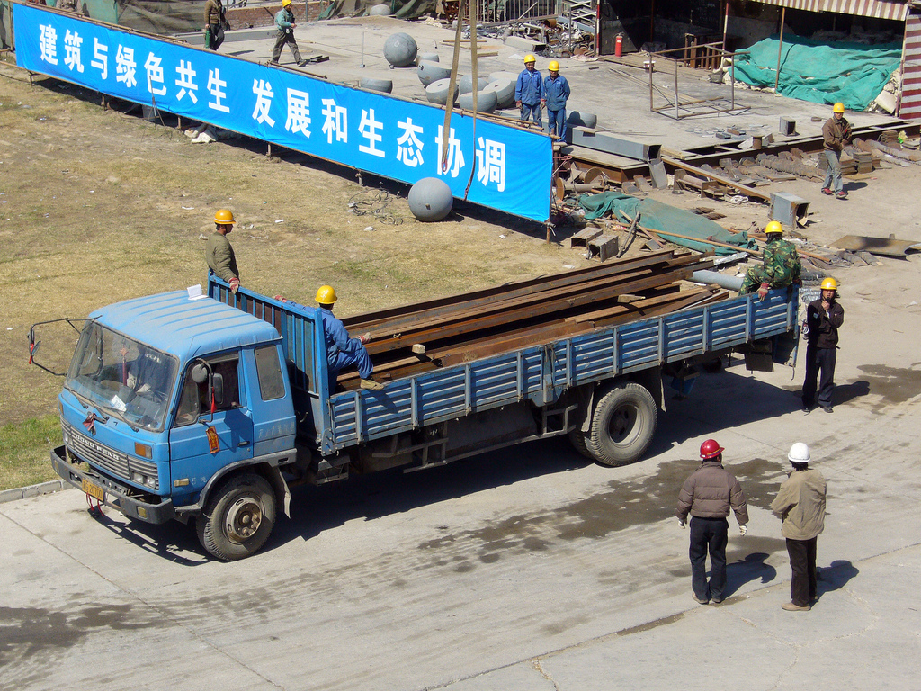 Building materials are unloaded (slowly) at the site of the Beijing 2008 Olympic National Swimming Centre.